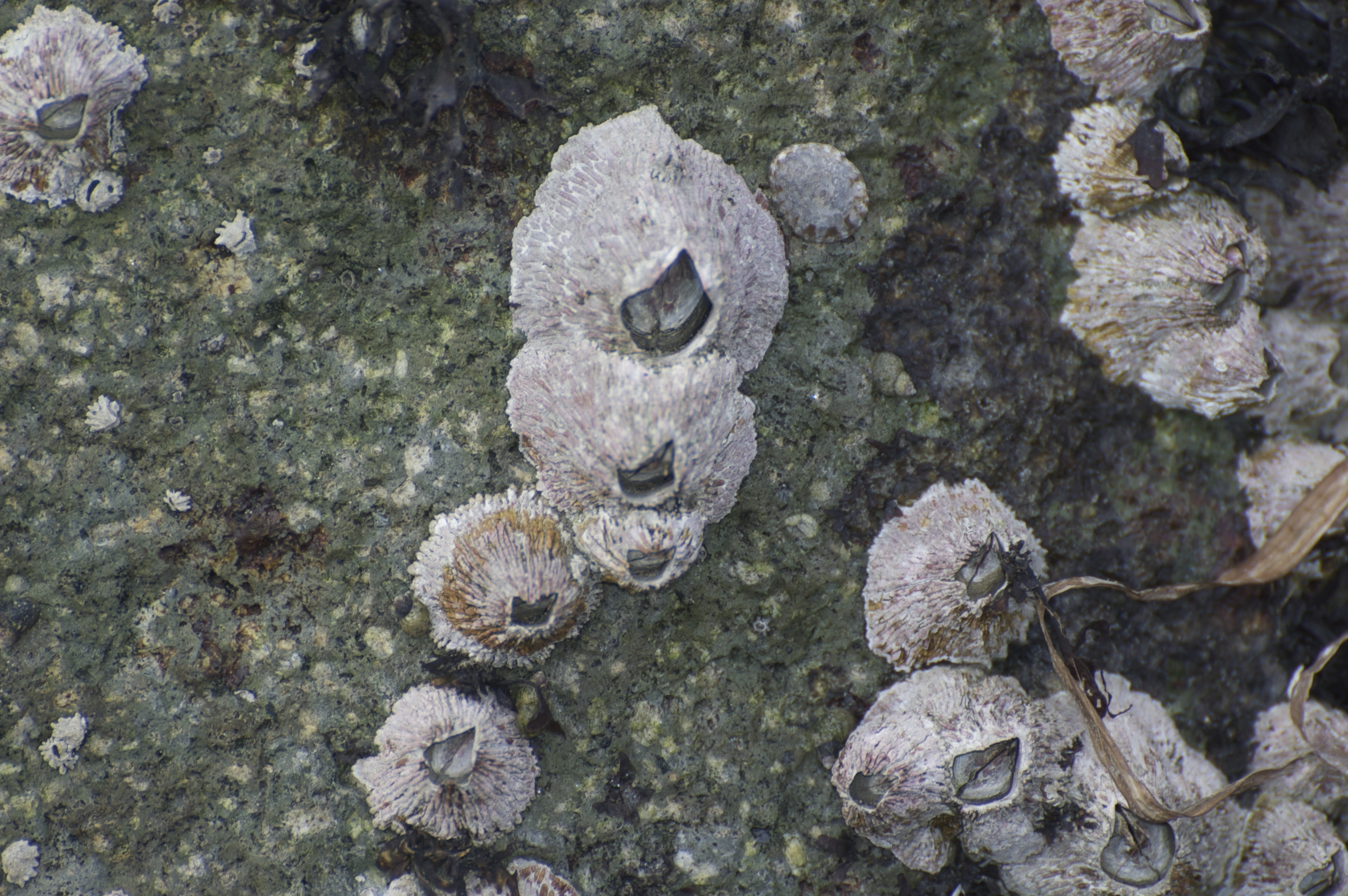 Semibalanus cariosus. "Some individuals have been known to live up to 15 years! Note the two "plates" that open up to let the jointed legs capture food. Related to crabs."